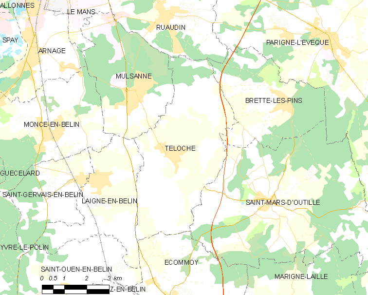 Map of French municipality